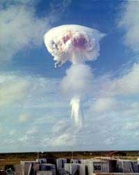 Nuclear weapon detonation for the test ARKANSAS during Operation Dominic in 1962. The bomb was dropped from a B-52 bomber near Christmas Island; its yield was approximately 1.09 meagatons.